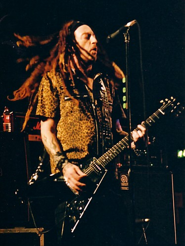 Ginger performing with The Wildhearts at Manchester Apollo on 13th October 2002. Image © Emma Farrer 2002 and used with her permission.